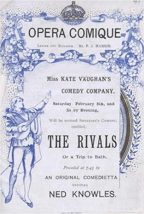 Scanned cover of original Victorian (1887) theatre programme. Public domain.